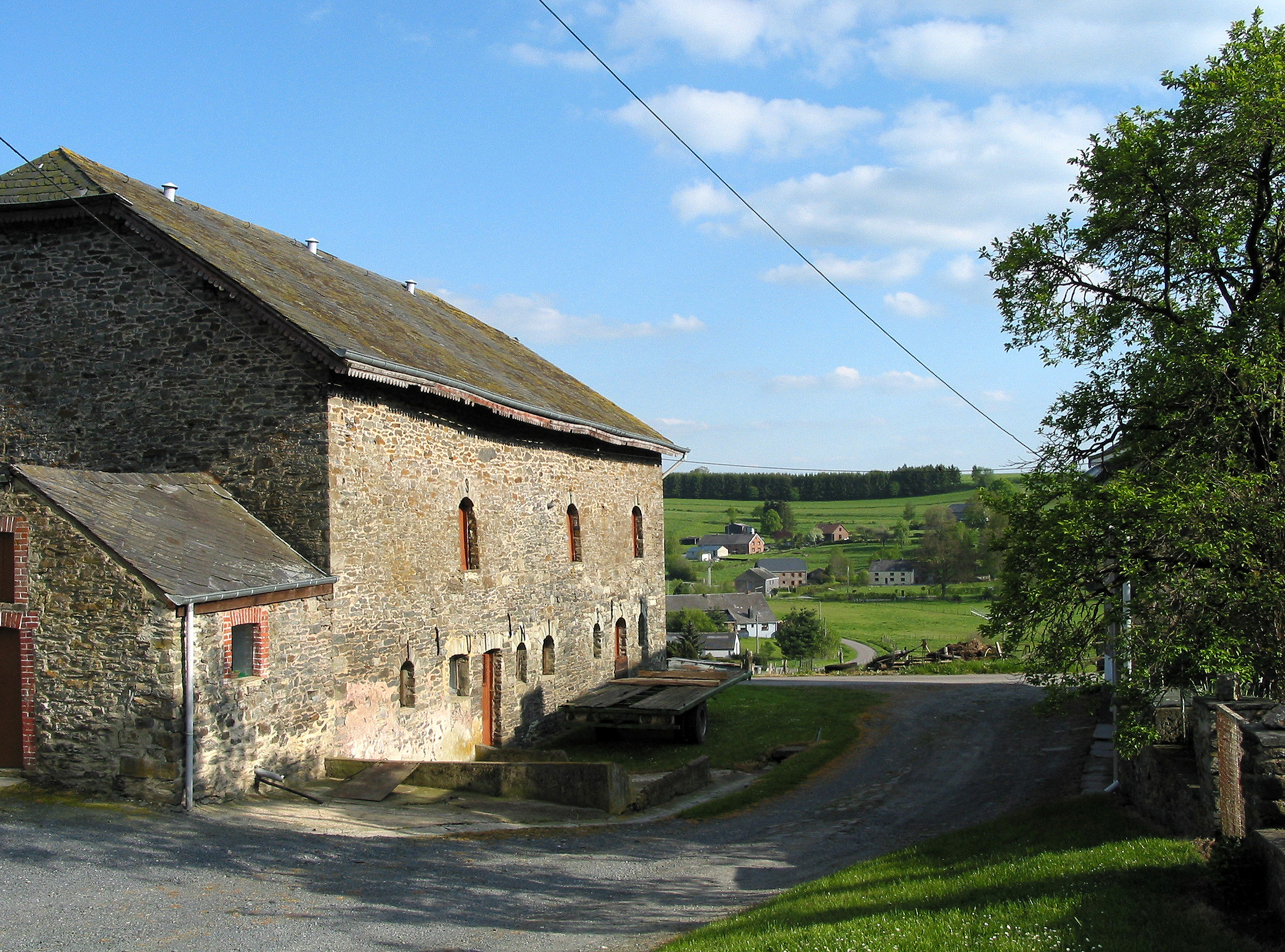 Longchamps (Bertogne) (Belgium), an old farm of the village.